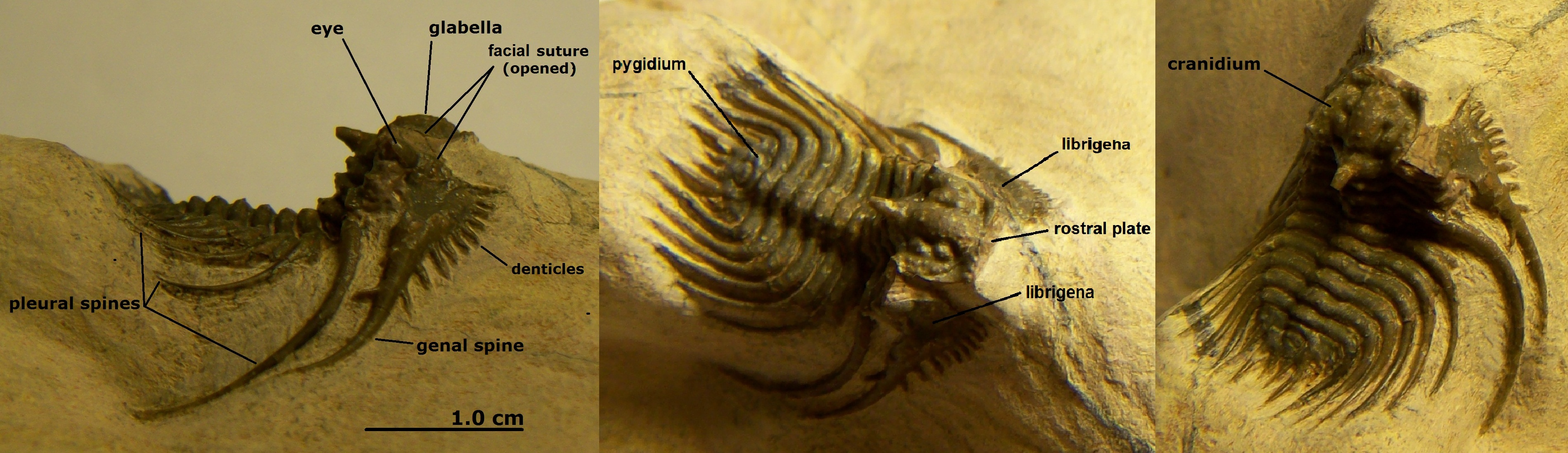 Leonaspis sp. from Erfoud (Morocco). This specimen is an exuvia. Note that the facial sutures are split (separating the cranidium from the librigenae) to let the animal abandon its old exoskeleton.